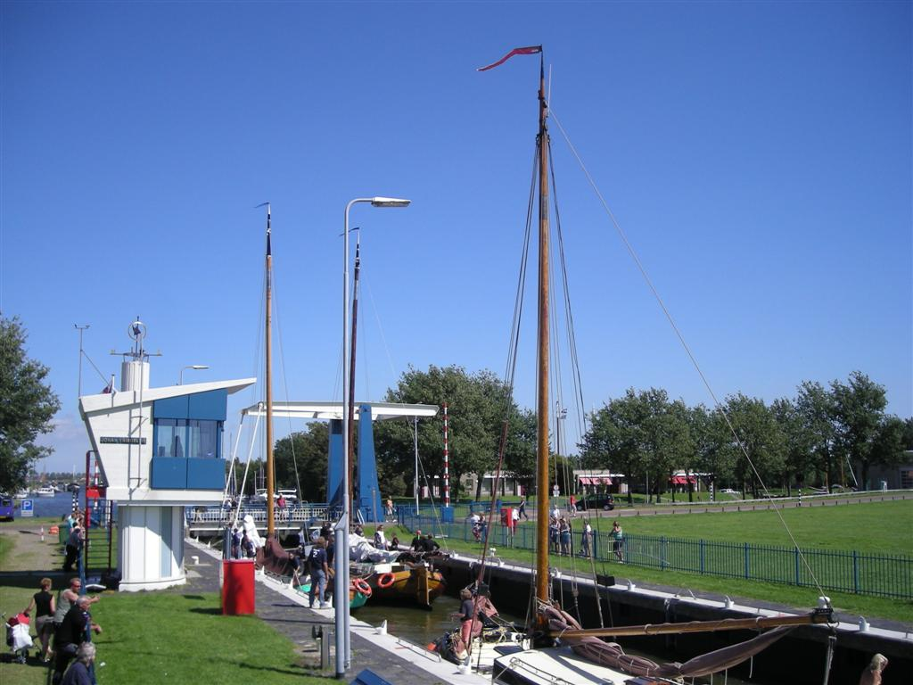 Johan Frisosluis Stavoren / Canal Lock in Stavoren